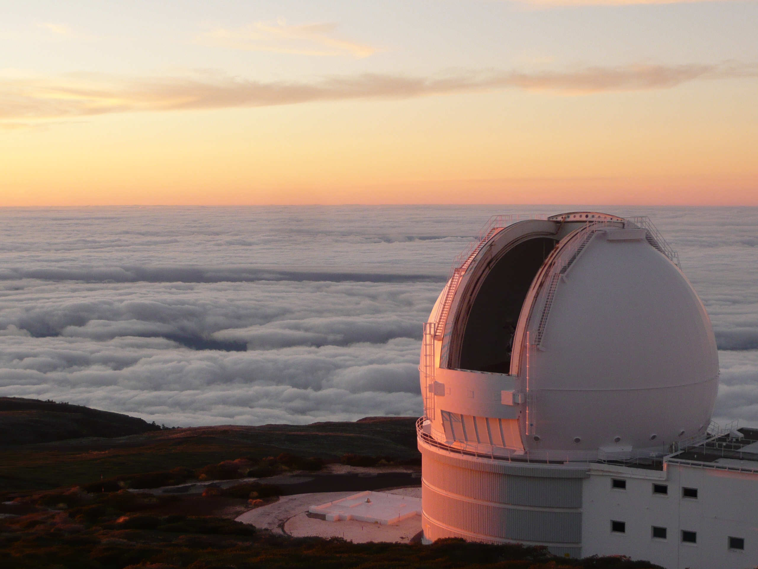 William Herschel Telescope at twilight